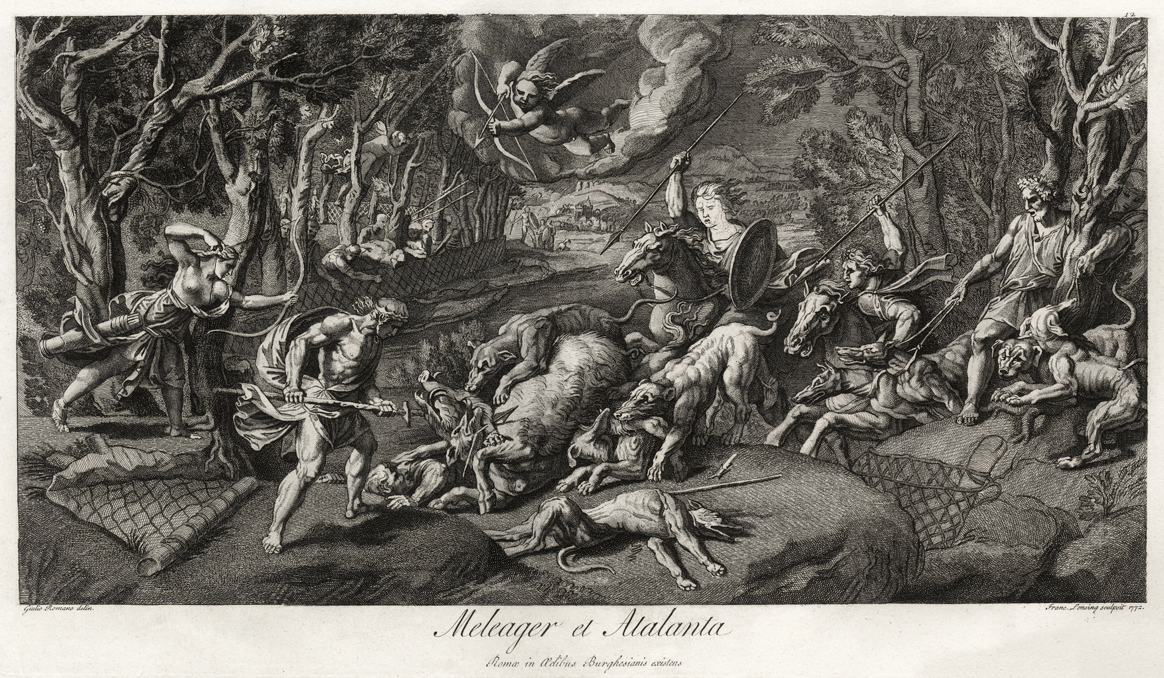 "Meleager et Atalanta", from a drawing by Guilio Romano, engraved by François Louis Lonsing. Atalanta is the woman on the far left with the bow; Meleager is just right of her, with the boar spear sticking into the Calydonian Boar.